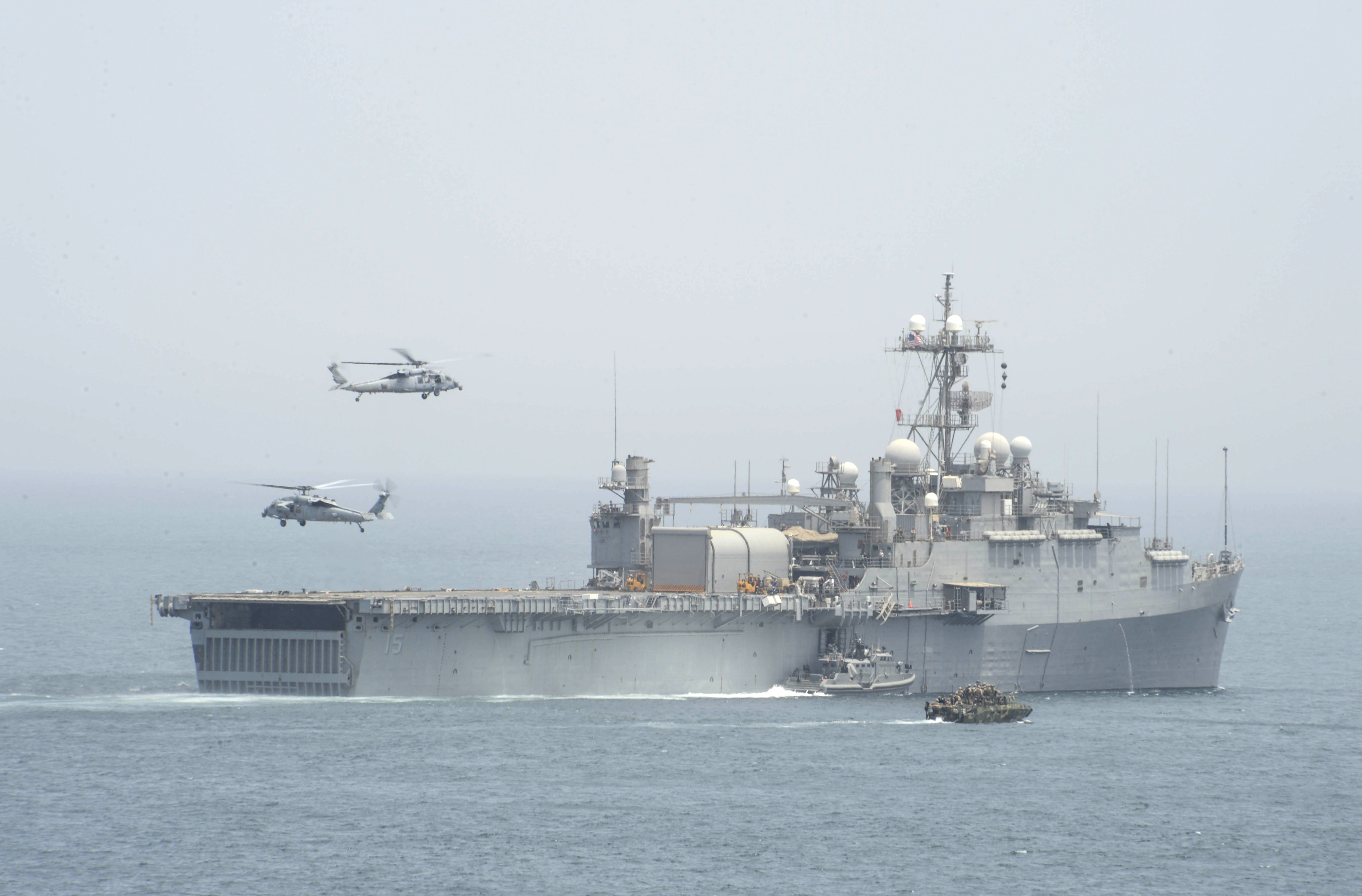 The Afloat Forward Staging Base (Interim) USS Ponce (AFSB(I)-15) is boarded by Sailors and Marines from the amphibious transport dock ship USS Mesa Verde (LPD-19) during an enhanced vessel board, search and seizure drill in the Arabian Gulf. Ponce was recently converted and reclassified to fulfill a long standing U.S. Central Command request for an afloat forward staging base to be forward deployed to the U.S. 5th Fleet area of responsibility. Two Sikorsky MH-60S Seahawk helicopters circle the ship, a coastal command boat and a Riverine Command Boat (RCB), from Coastal Riverine Squadron (RIVRON) 3 are next to Ponce.